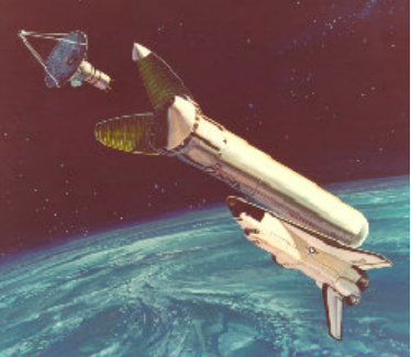 Large Low Density Payloads Could Be Carried In Extensions To The External Tank.